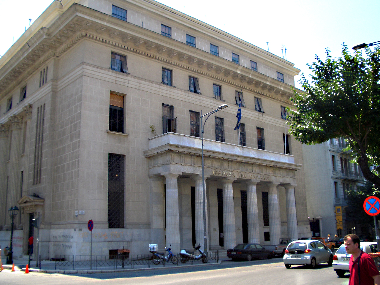 The Residence of the Bank of Greece at the corner of the Streets Ionos Dragoumi and Tsimiski, Thessaloniki